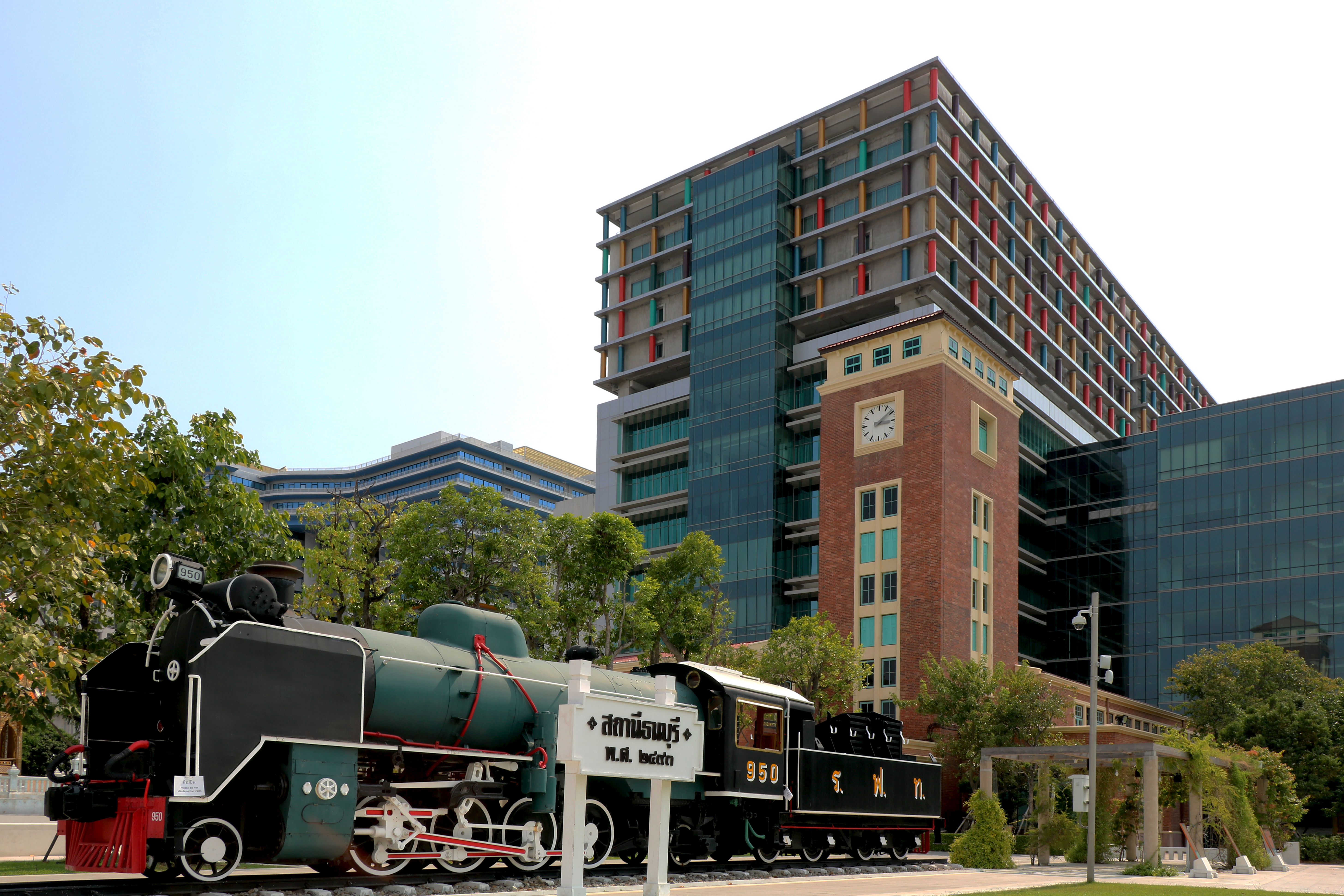 The old building of Thonburi Railway Station, originally known as Bangkok Noi Station, is preserved next to the Piyamaharajkarun Building of Siriraj Hospital in Bangkok, Thailand.